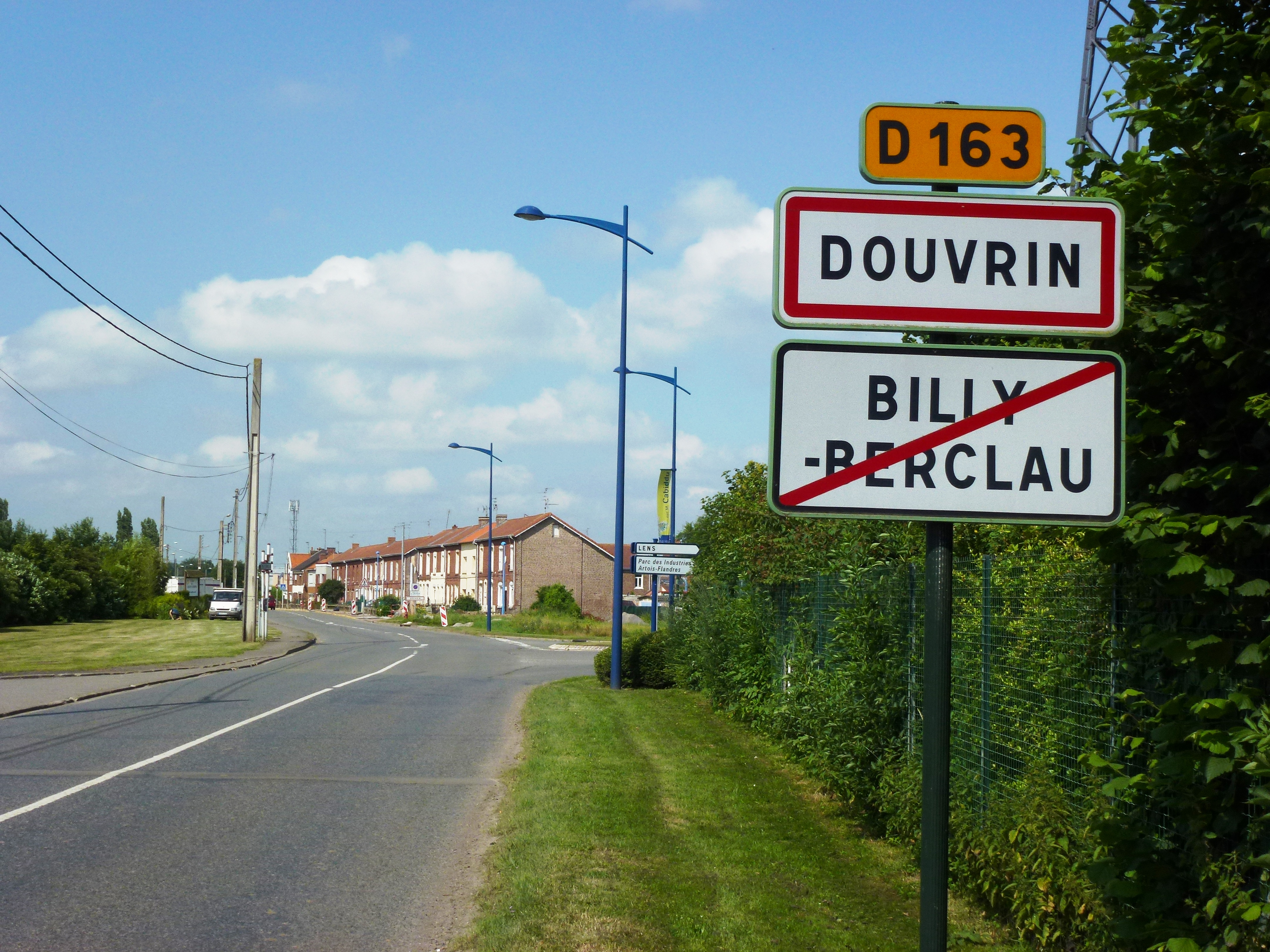 Douvrin (Pas-de-Calais, Fr) city limit sign